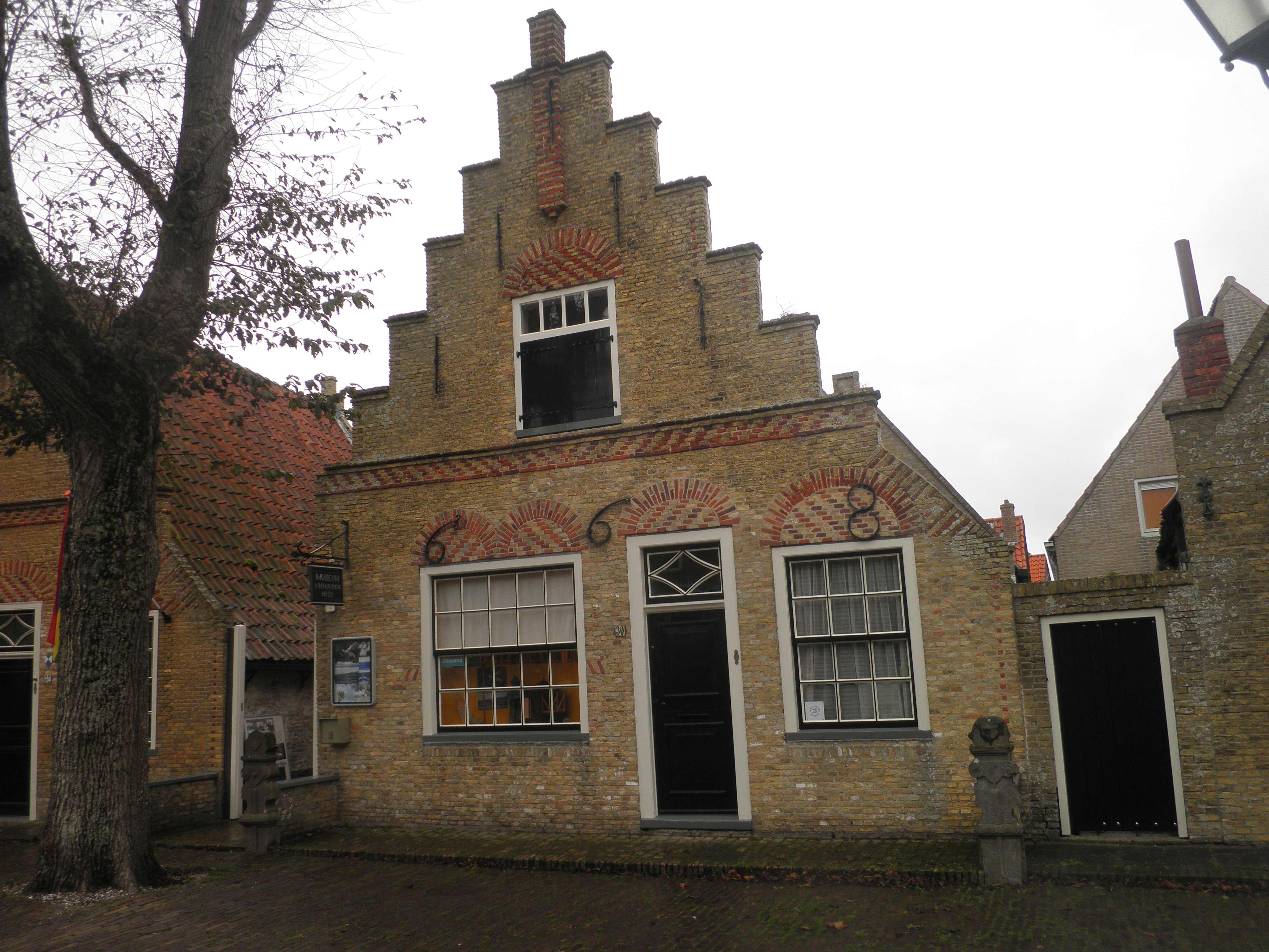 Part of museum "'t Behouden Huys": house with crow-stepped gable in yellow brick with red brick ornaments in arches over the windows, top pilaster and two sidewalk marking poles at Commandeurstraat 30 in West-Terschelling in the Netherlands. Nationally listed heritage.